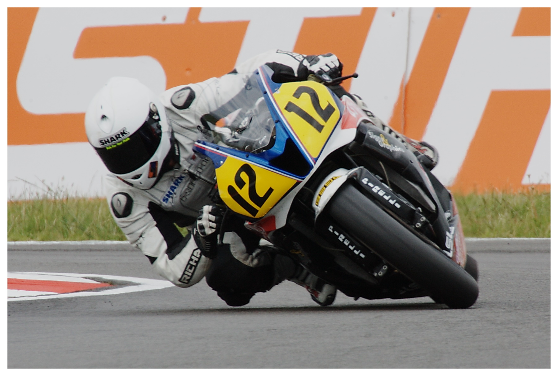 Sam Lowes riding his Astro Racing Honda during the 2009 British Superbike Championship at Snetterton.